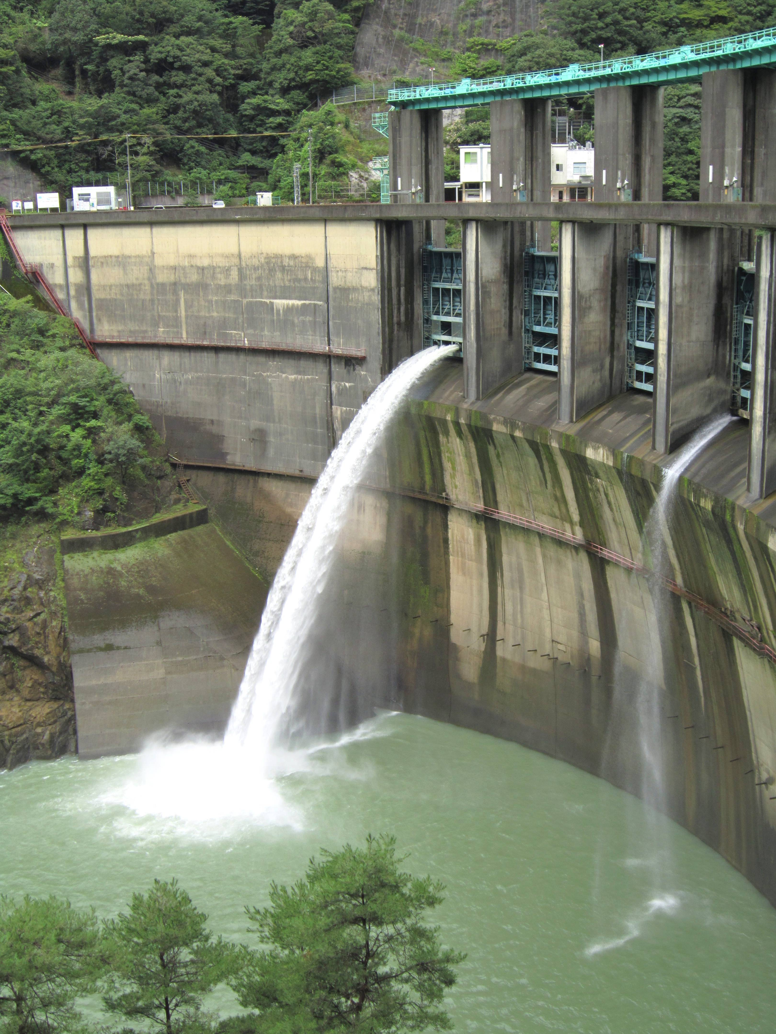 Futatsuno Dam river maintenance discharge.